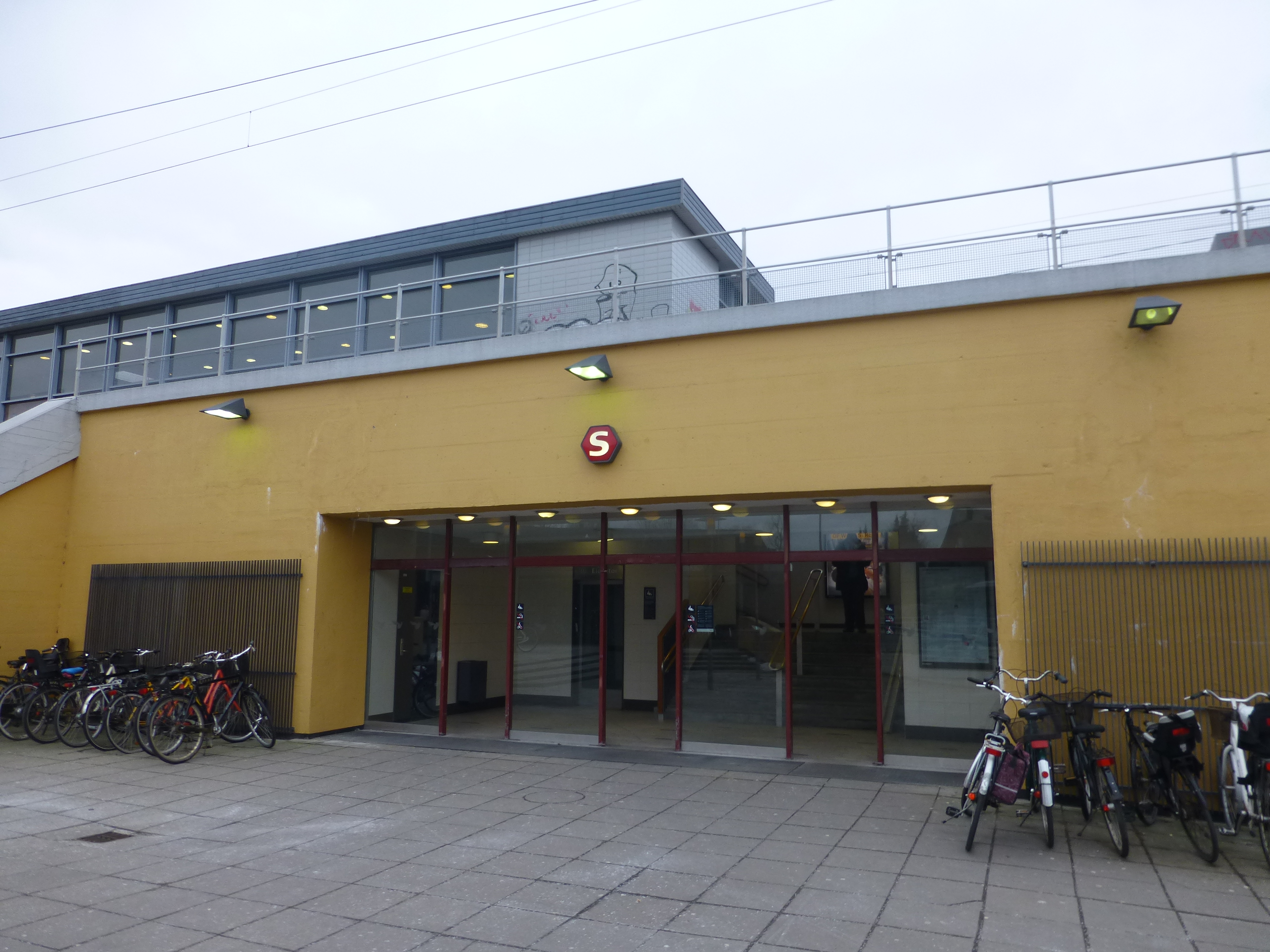 Islev Station, a S-train station on Frederikssundsbanen in Copenhagen.